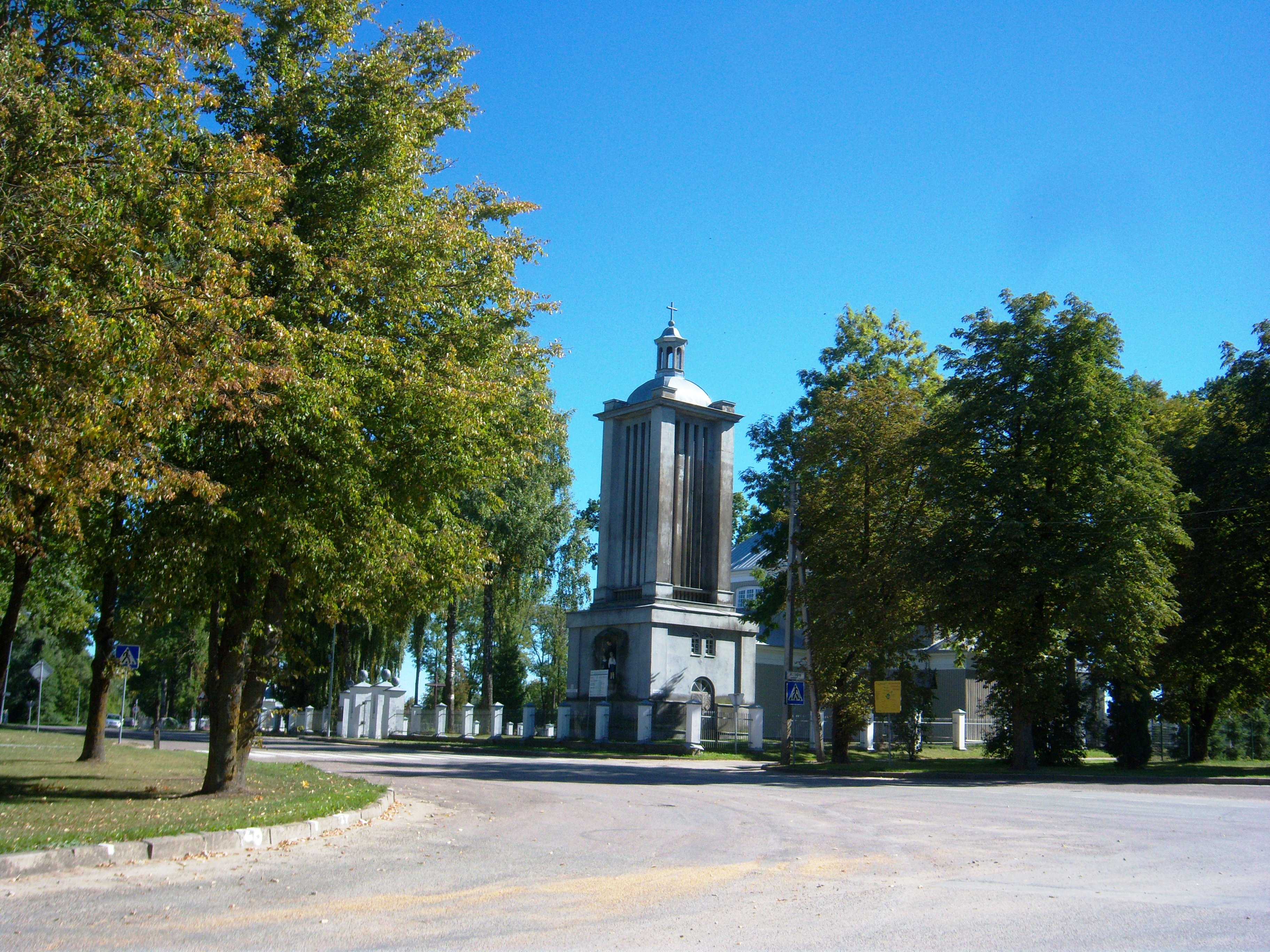 Catholic church in Griškabūdis, bell tower, Šakiai District, Lithuania